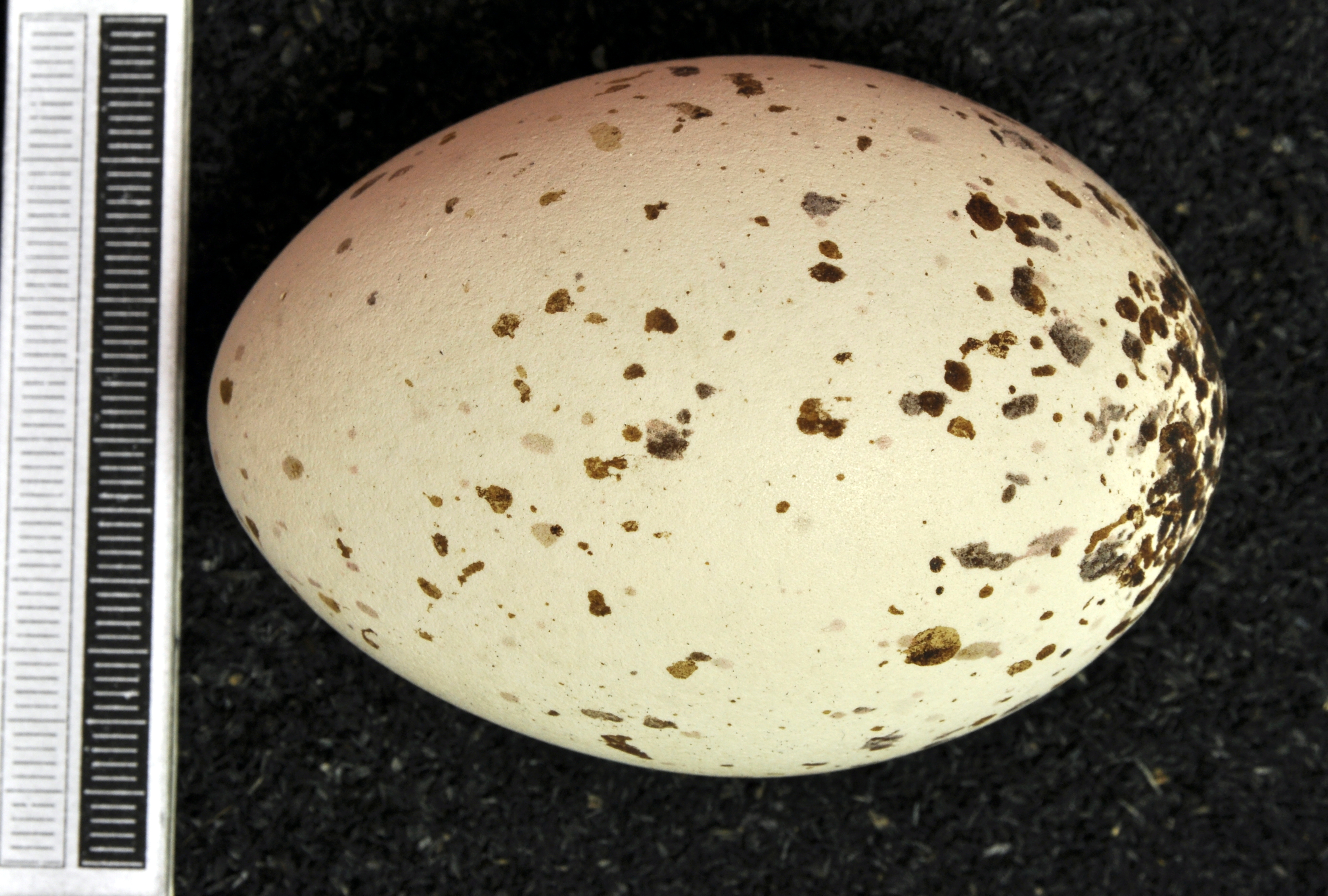 Black vulture Coragyps atratus , egg, Coll. Museum Wiesbaden